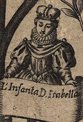 Elizabeth of Viseu (1459-1521), sister of King Manuel I of Portugal and Duchess of Braganza.